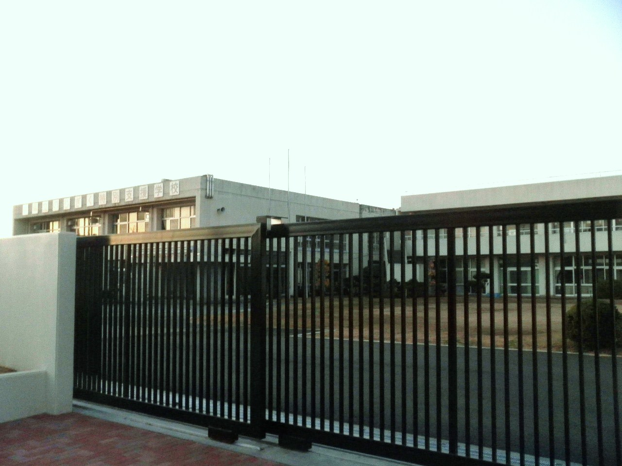 Nojigiku supecial support school